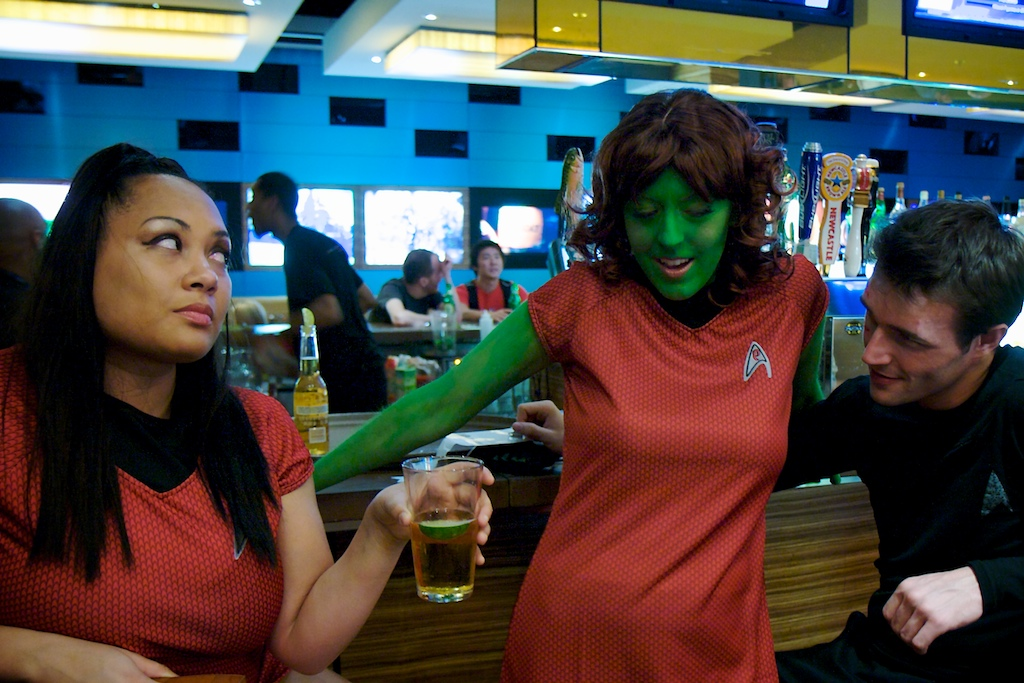 [Dragon*Con 2009] Uhura, Gaila and Kirk from Star Trek